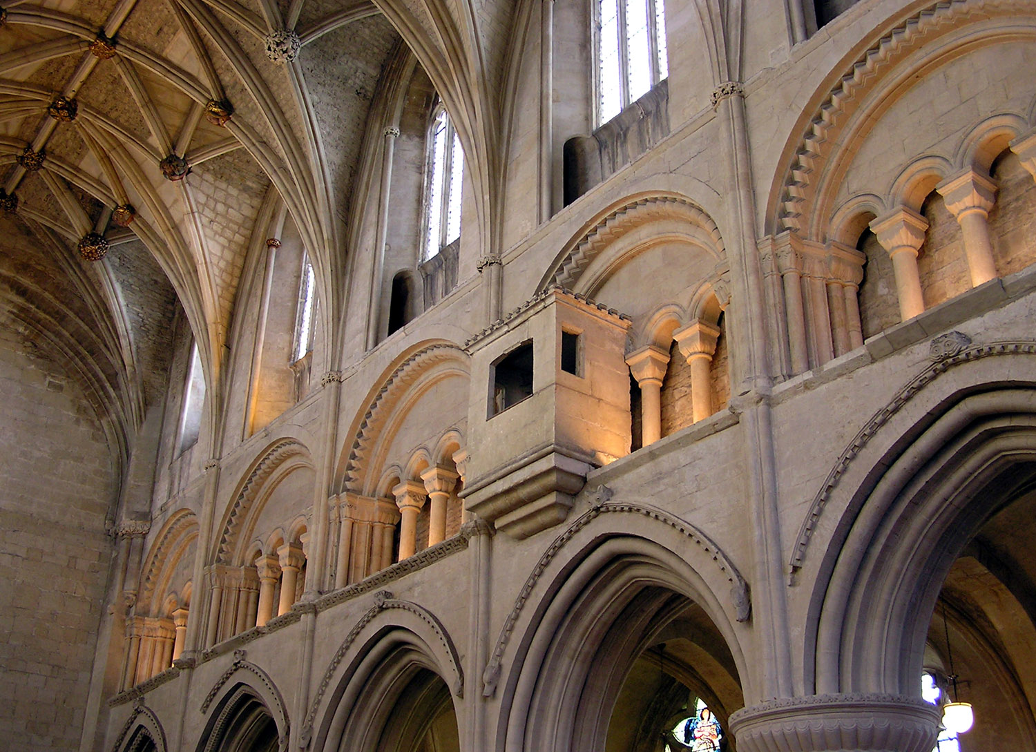 Malmesbury Abbey interior. The purpose of the watching-loft is uncertain. There are four possible functions: - a monk could have helped the congregation follow any religious activities at the far end of the church, which was separated by a screen from the end with the watching-loft. - to allow an observer to watch the many visitors and pilgrims. - as a penance chamber. - as a place where visiting nobility or royalty could watch the service over the top of the screen. The wall levels, top to bottom, are the clear windows of the clerestory, the rounded arches of the triforium (windowless at Malmesbury) and the pointed arches of the nave arcading. Taken by Adrian Pingstone in February 2005 and released to the public domain.